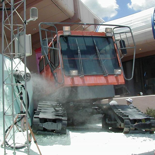 The exterior of Ice Station Cool, which is part of Epcot, Walt Disney World.